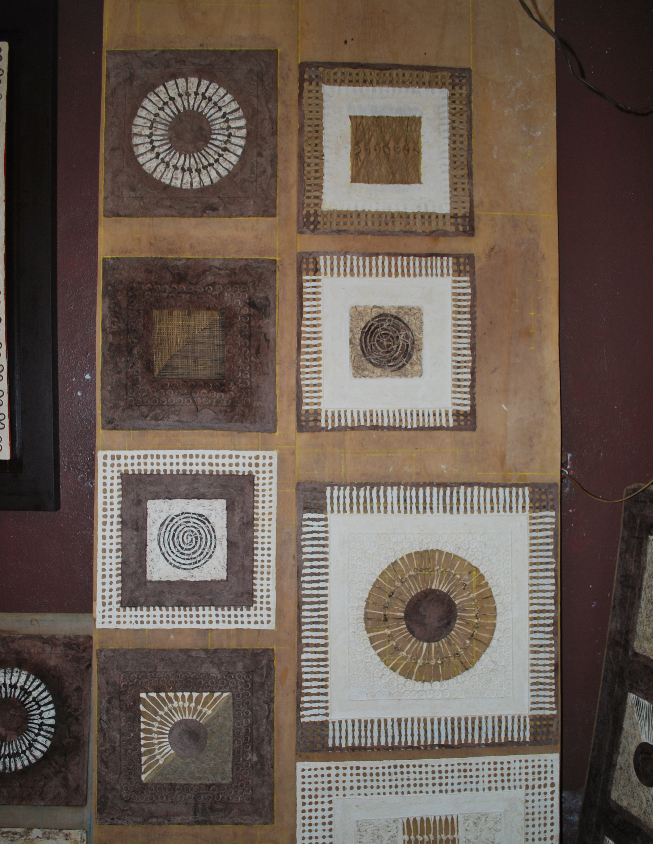 Amate paper with designs at the San Pablito gallery and museum in San Pablito, Pahuatlán, Puebla, Mexico